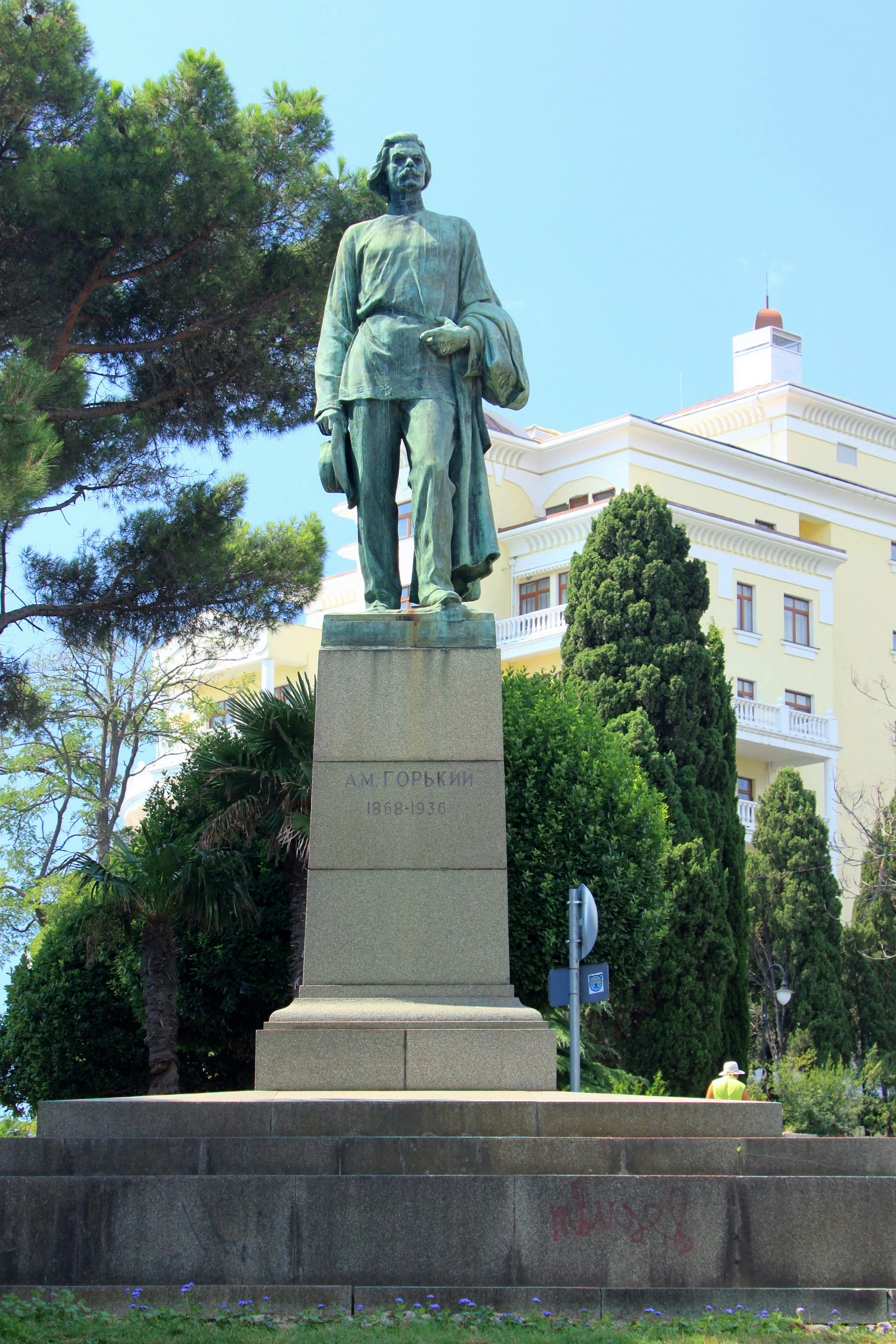 M. Gorky monument. Yalta, Crimea.